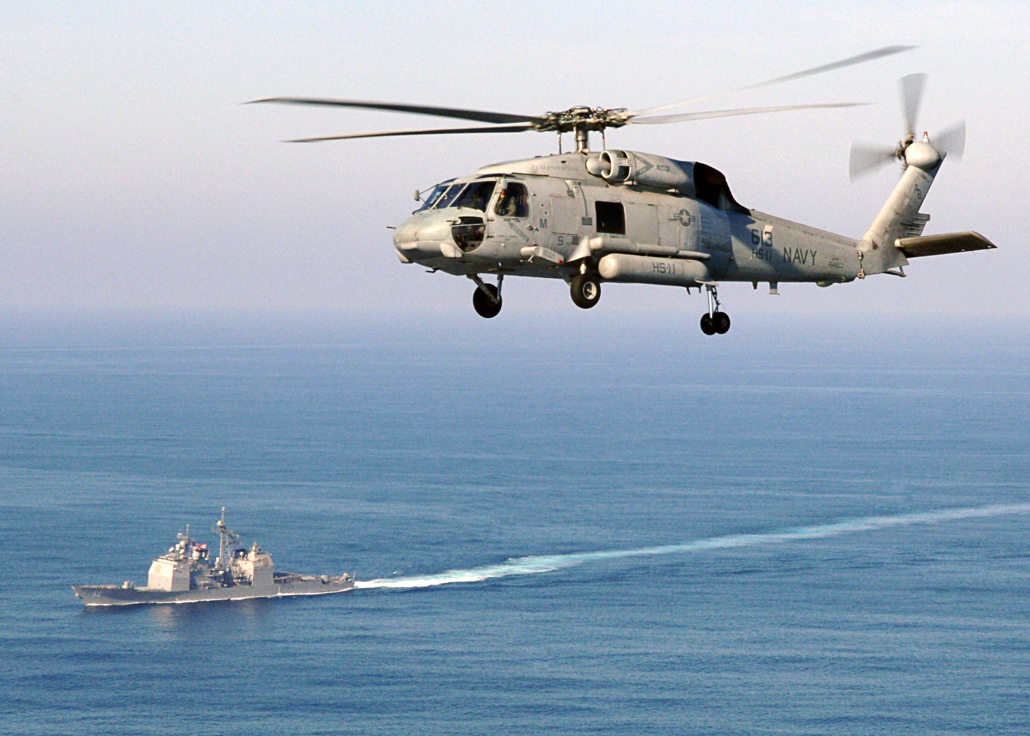 A U.S. Navy SH-60F Seahawk helicopter assigned to helicopter anti-submarine squadron HS-11 Dragon Slayers passes the guided-missile cruiser USS Leyte Gulf (CG-55) in the Atlantic Ocean on 7 May 2006. HS-11 was assigned to Carrier Air Wing 1 (CVW-1) aboard the aircraft carrier USS Enterprise (CVN-65).